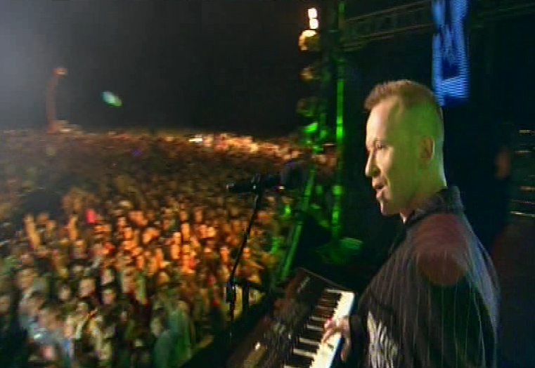 Simon Britton at ESKA Concert Poland